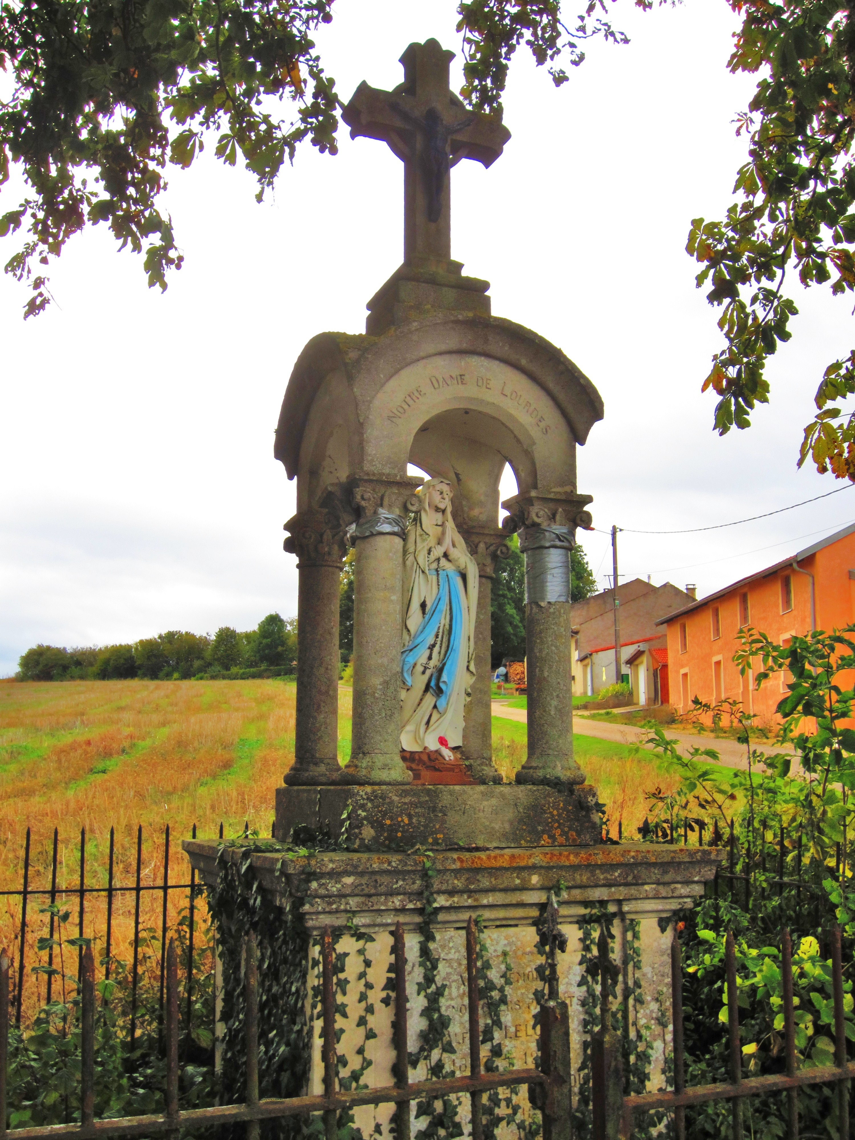 Oratoire Moncheux